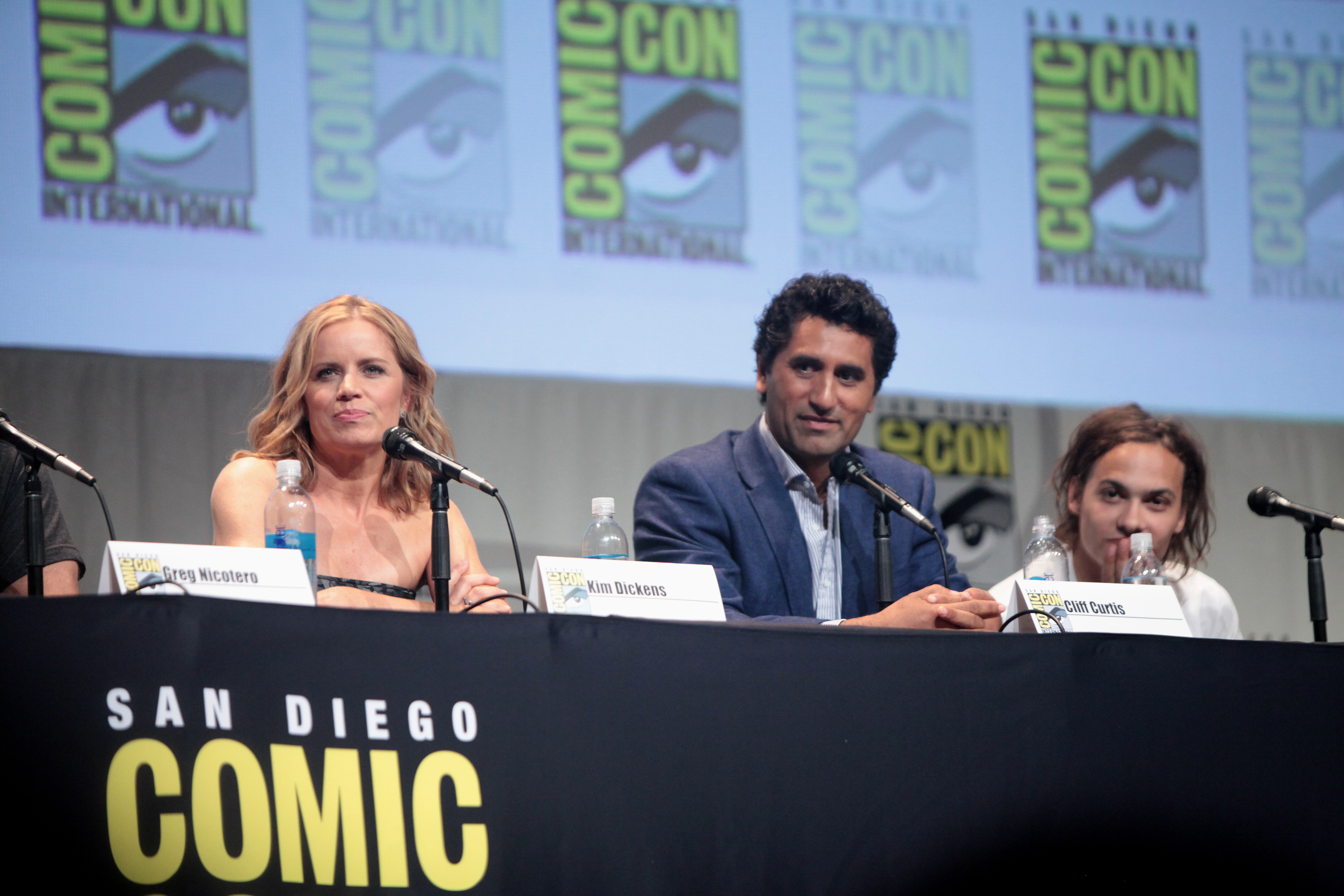 Kim Dickens, Cliff Curtis and Frank Dillane speaking at the 2015 San Diego Comic Con International, for "Fear the Walking Dead", at the San Diego Convention Center in San Diego, California.